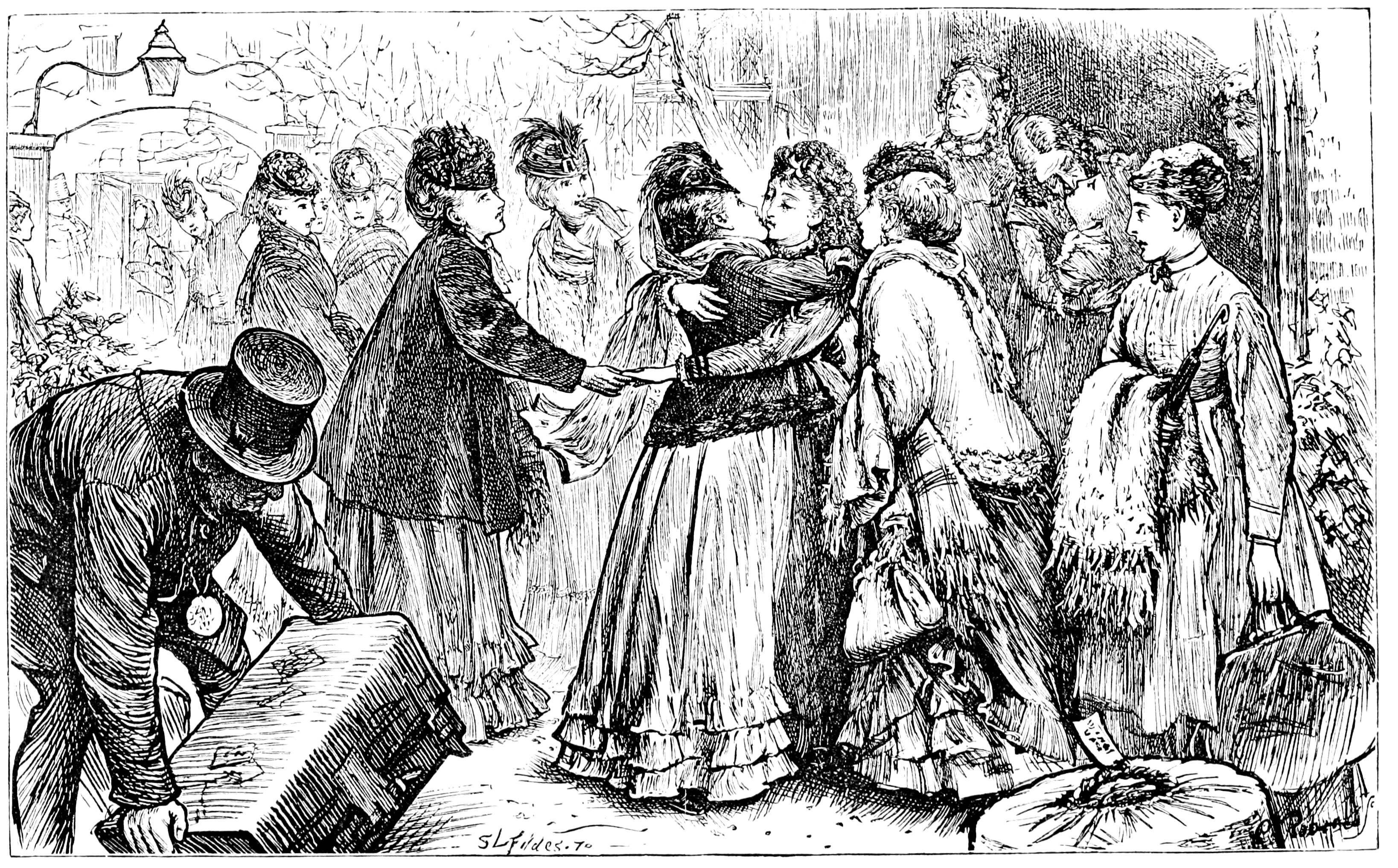 Illustration from the book, The Mystery of Edwin Drood, written by Charles Dickens, illustrated by Luke Fides